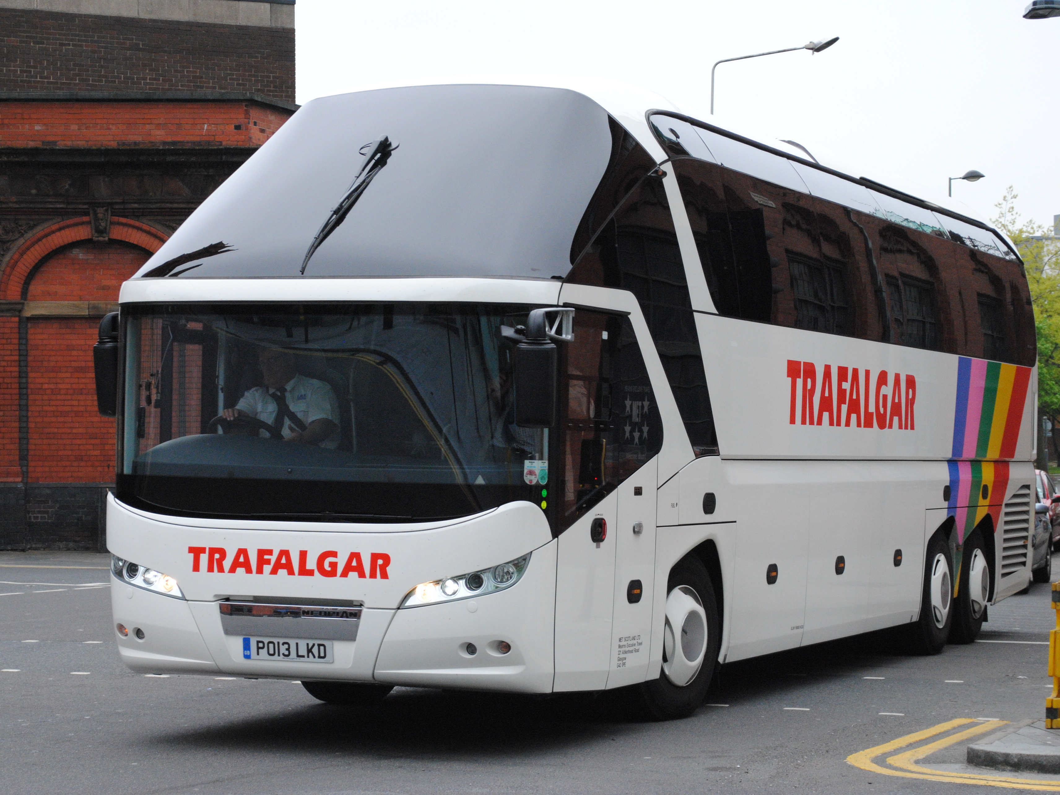 Neoplan N2518SHD Starliner 2